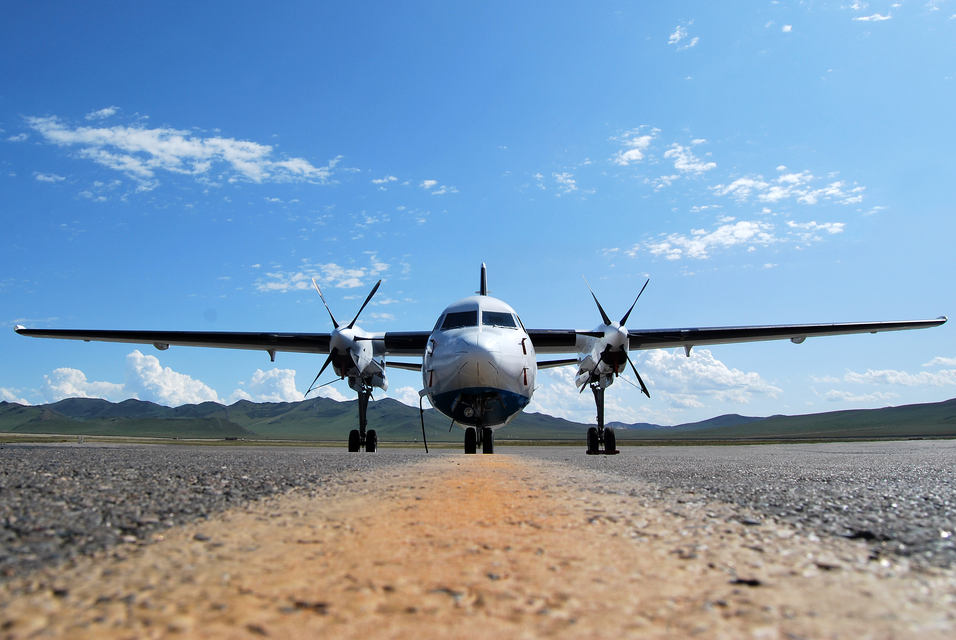 Fokker 50 running